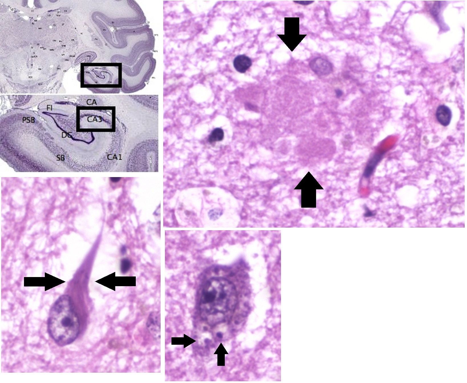 Histopathology of Alzheimer's disease, in the CA3 area of the hippocampus (here showing a normal histology image to describe the location - it is usually atrophied in Alzheimer's disease): Amyloid plaque (top right), neurofibrillary tangles (bottom left) and granulovacuolar degeneration (bottom center). H&E stains. All 3 images have equal high magnification.